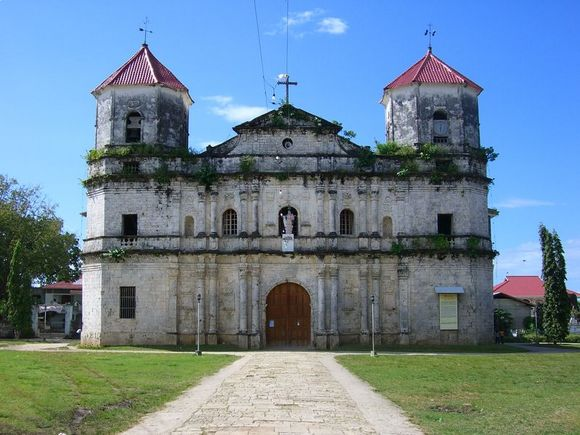 self-taken